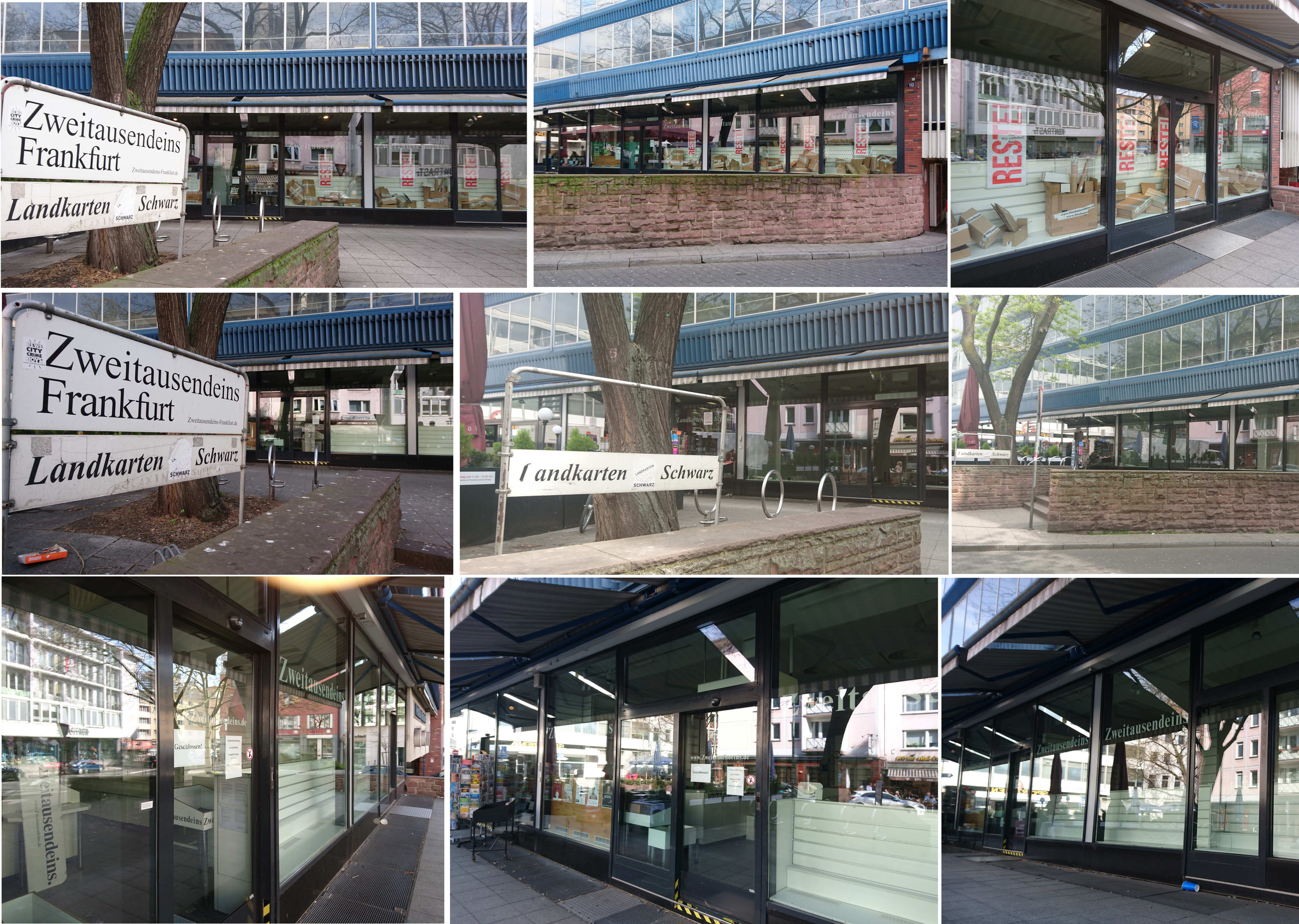 The last remaining outlet of Zweitausendeins was closed on 31 march 2017. The images in the collage were taken on 7 march, 31 march and 28 april.